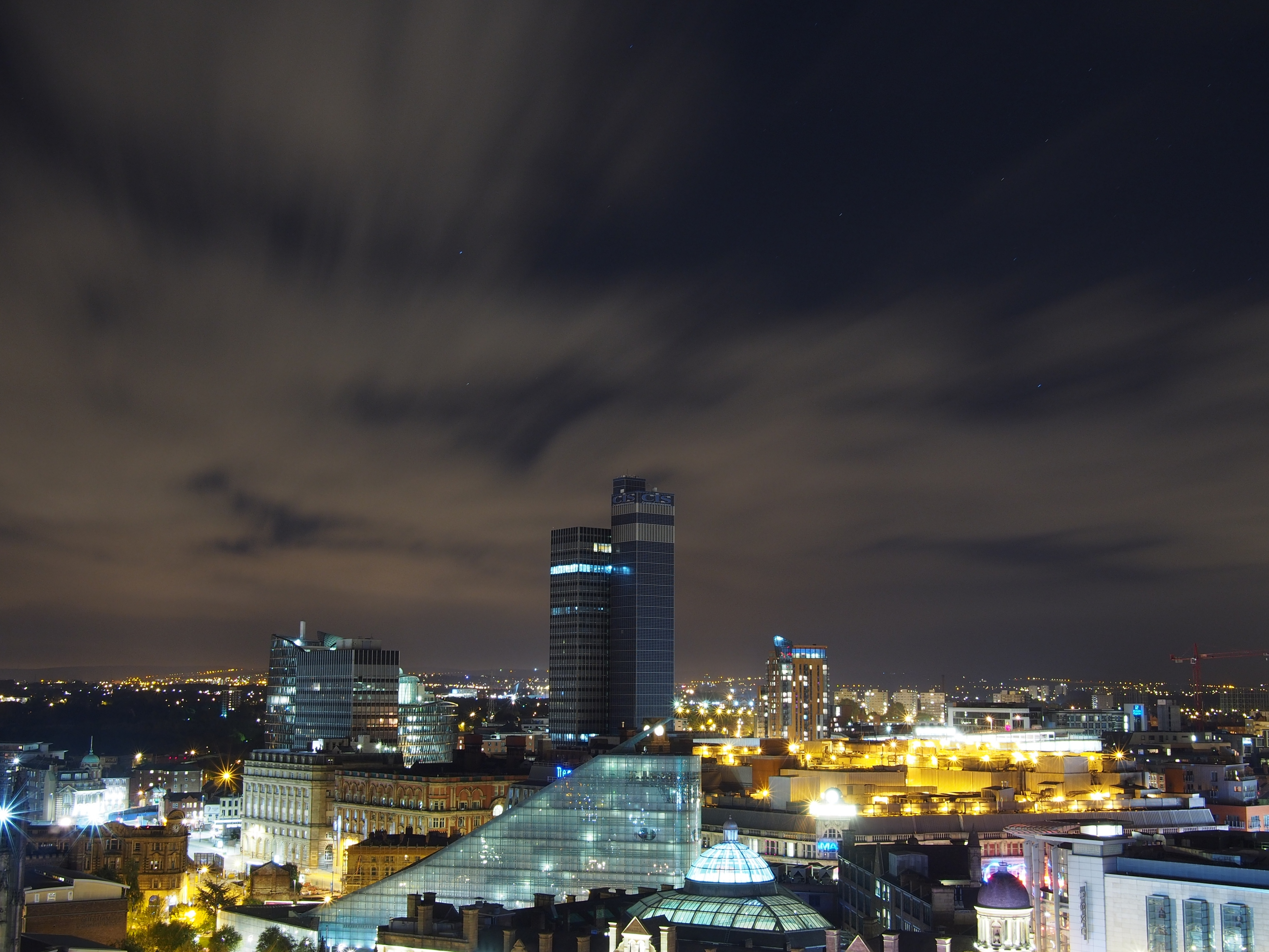 CIS Tower, Manchester, at night and in context. Includes Urbis, Printworks, Victoria station, The Corn Exchange, Shudehill